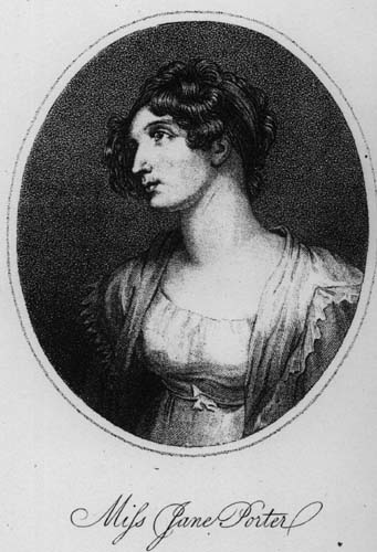 Portrait of Jane Porter (1776-1850) from The Ladies' Monthly Museum